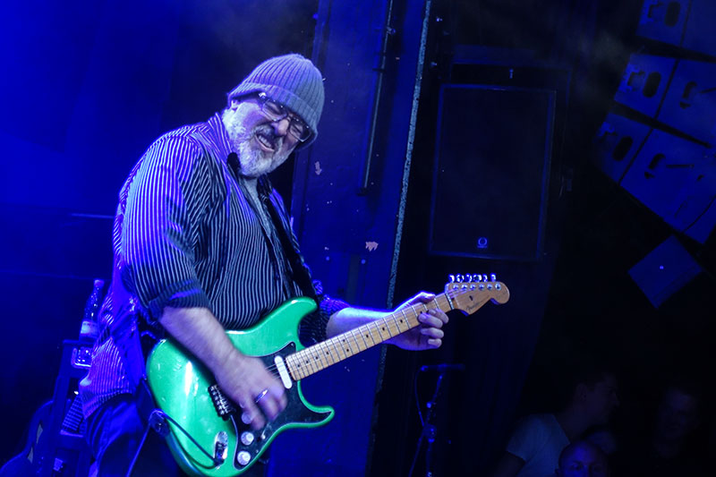 Mike Keneally playing with Joe Satriani in Aarhus Denmark (2016)